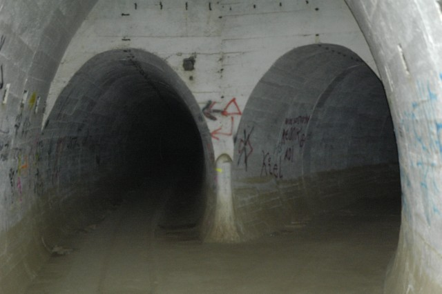 Poland, Boryszyn - underground fortress of MRU (Ostwall).